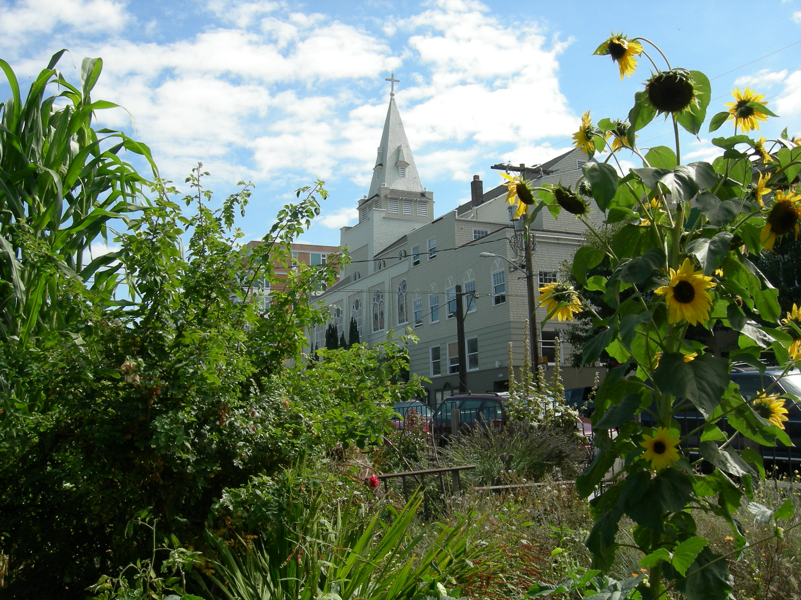 Immanuel Lutheran Church, 1215 Thomas St., Cascade / South Lake Union neighborhood, Seattle, Washington seen from the Cascade P-Patch, the neighborhood's allotment gardens next door to the Cascade People's Center. The church is on the National Register of Historic Places, ID #82004239.